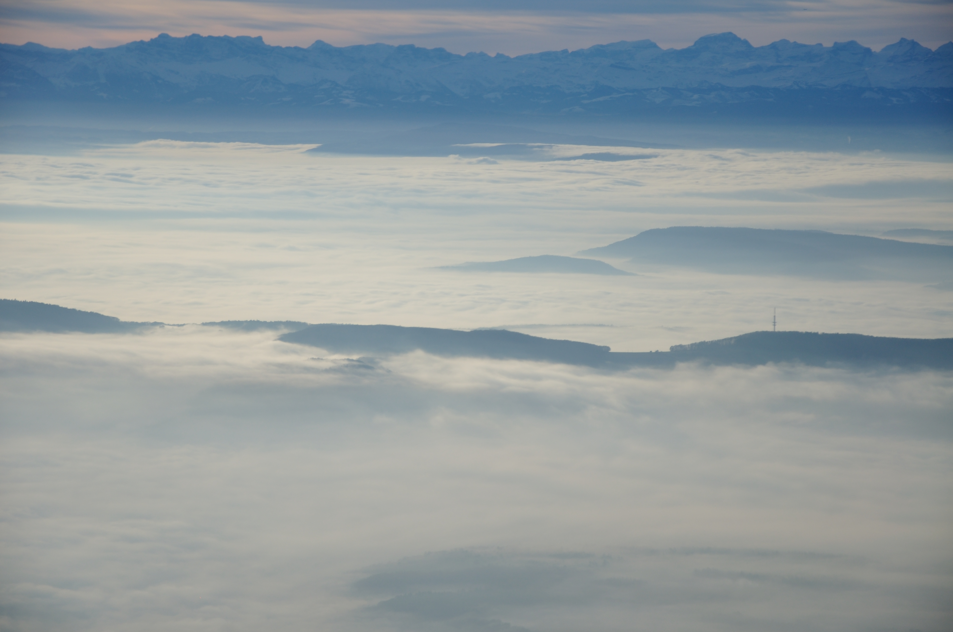 Southern part of Baden-Württemberg, Swiss Central Plateau around Zurich in the fog, Glärnisch and Glarner Alps, impressions during an approach to Zurich airport